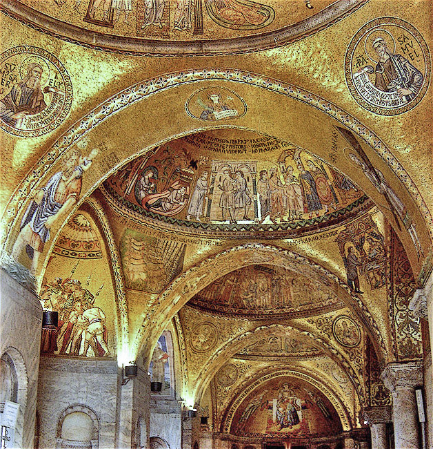 St. Mark's Basilica, Venice. detail of its mosaics